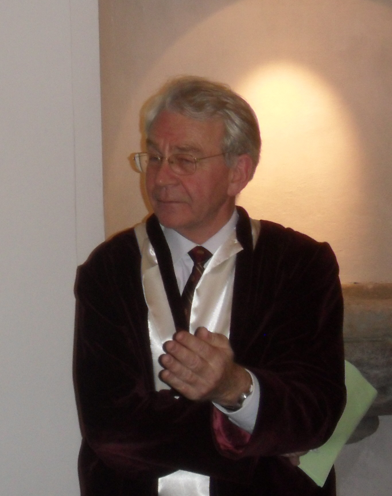 Danish Supreme Court President Børge Dahl taken at Kulturnatten 2010